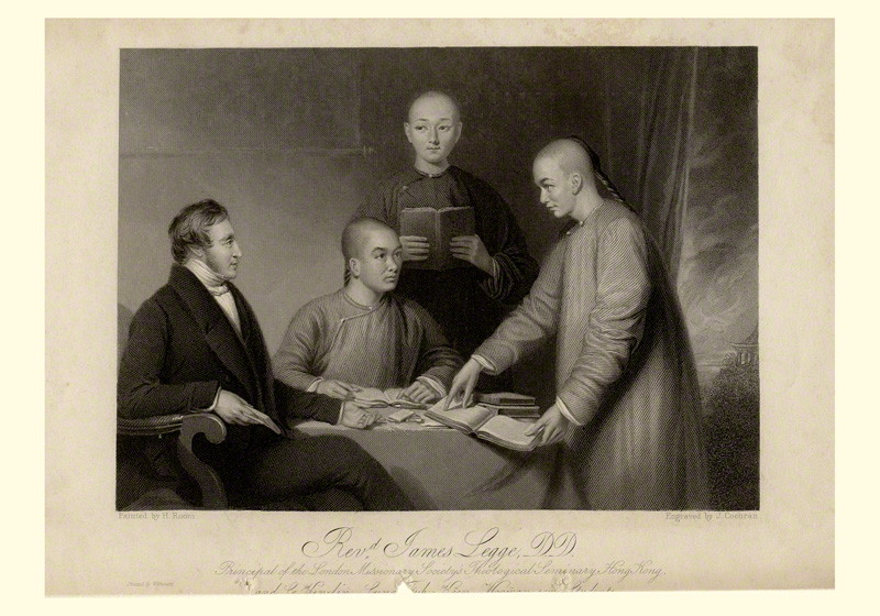 Original caption: "Dr. Legge and his three Chinese students, from a painting by H. Room"